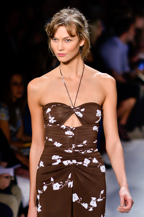 Karlie Kloss walks the runway at the Michael Kors Spring/Summer 2014 show at New York Fashion Week, September 2013.